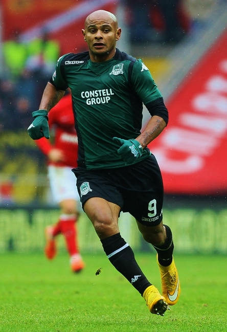 Ariclenes da Silva Ferreira